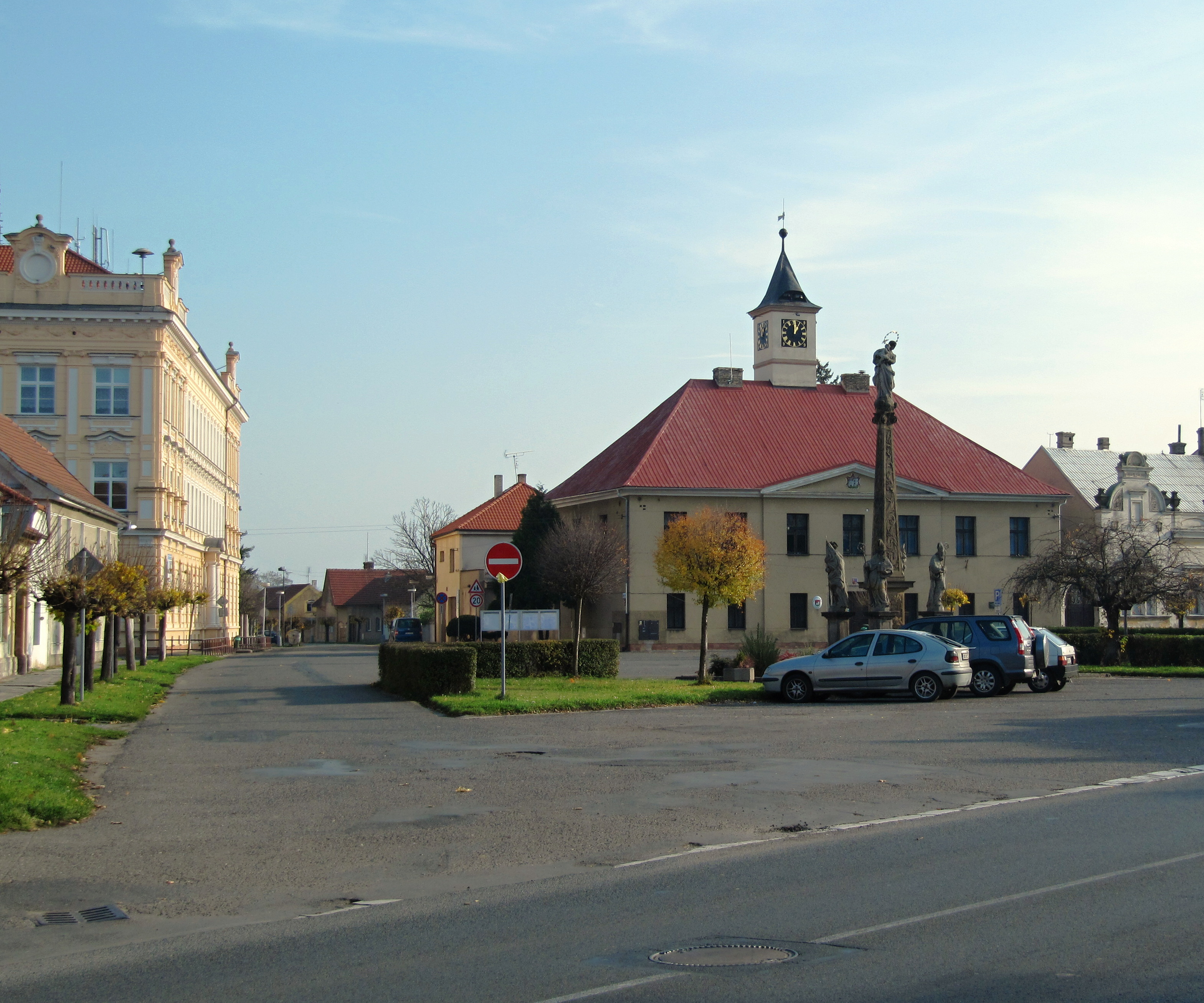 Sadská in Nymburk District, Czech Republic. Square Palackého náměstí, school, town hall and the Marian column.